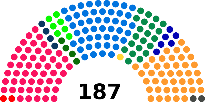 Seats diagramme of Swiss National Council (1935)